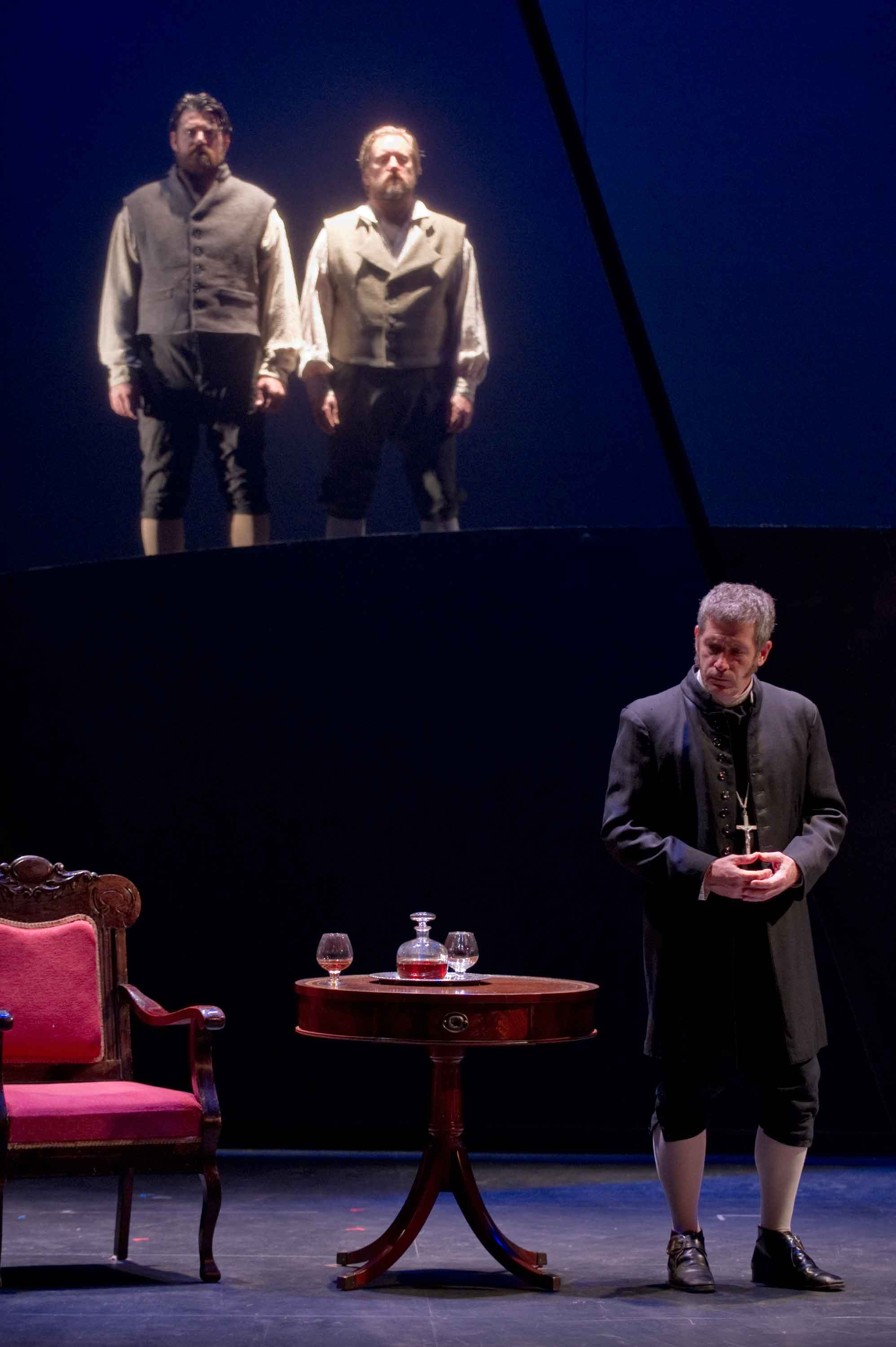 This photo is from the 2013 performance of The Garden of Martyrs opera. In the photo Father Jean Cheverus is deciding whether to come to the aid of two imprisoned men, Daley and Halligan. It will be inserted in the Wikipedia page,The Garden of Martyrs.